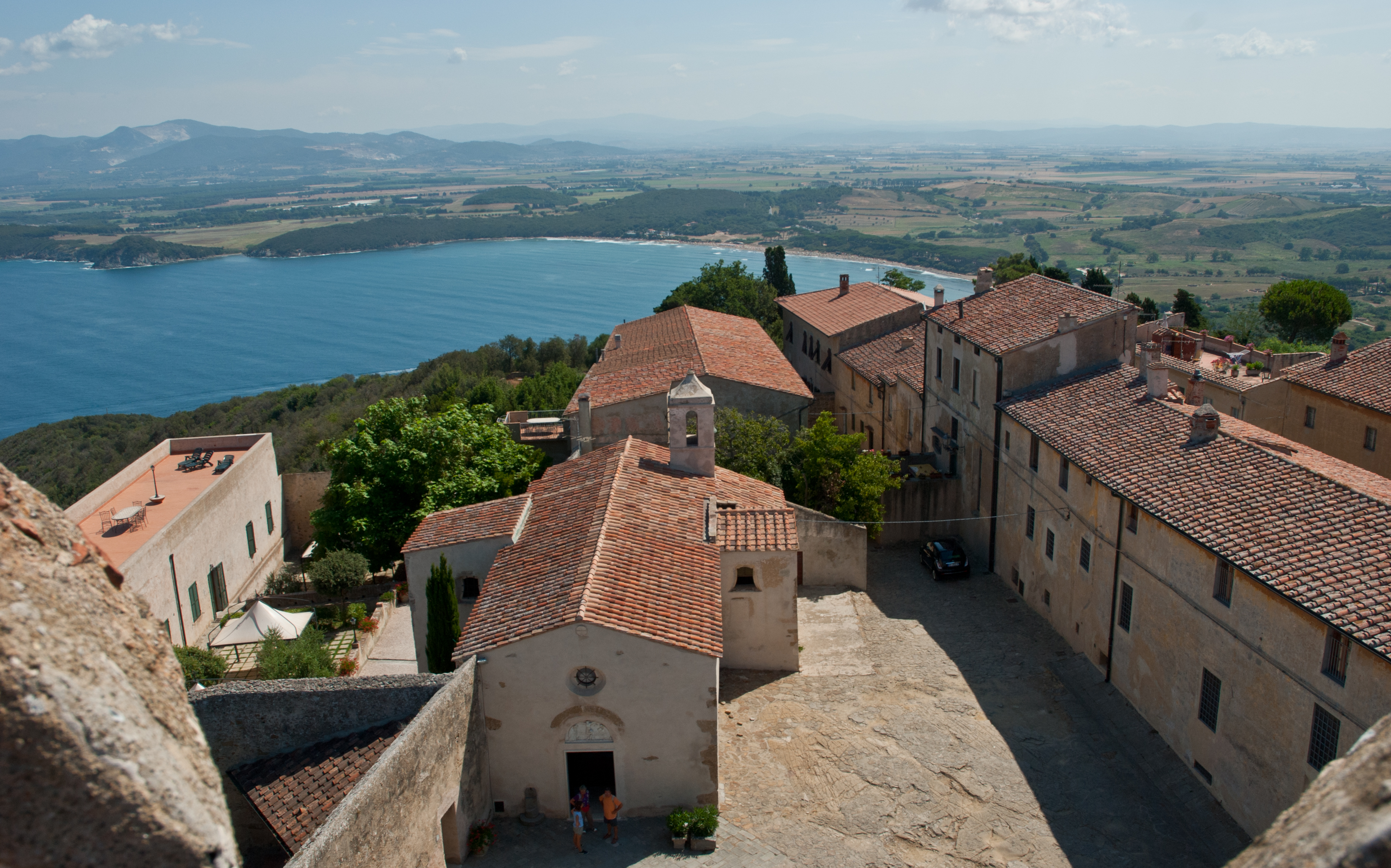 Populonia, seen from the tower of the castle with gulf of Baratti